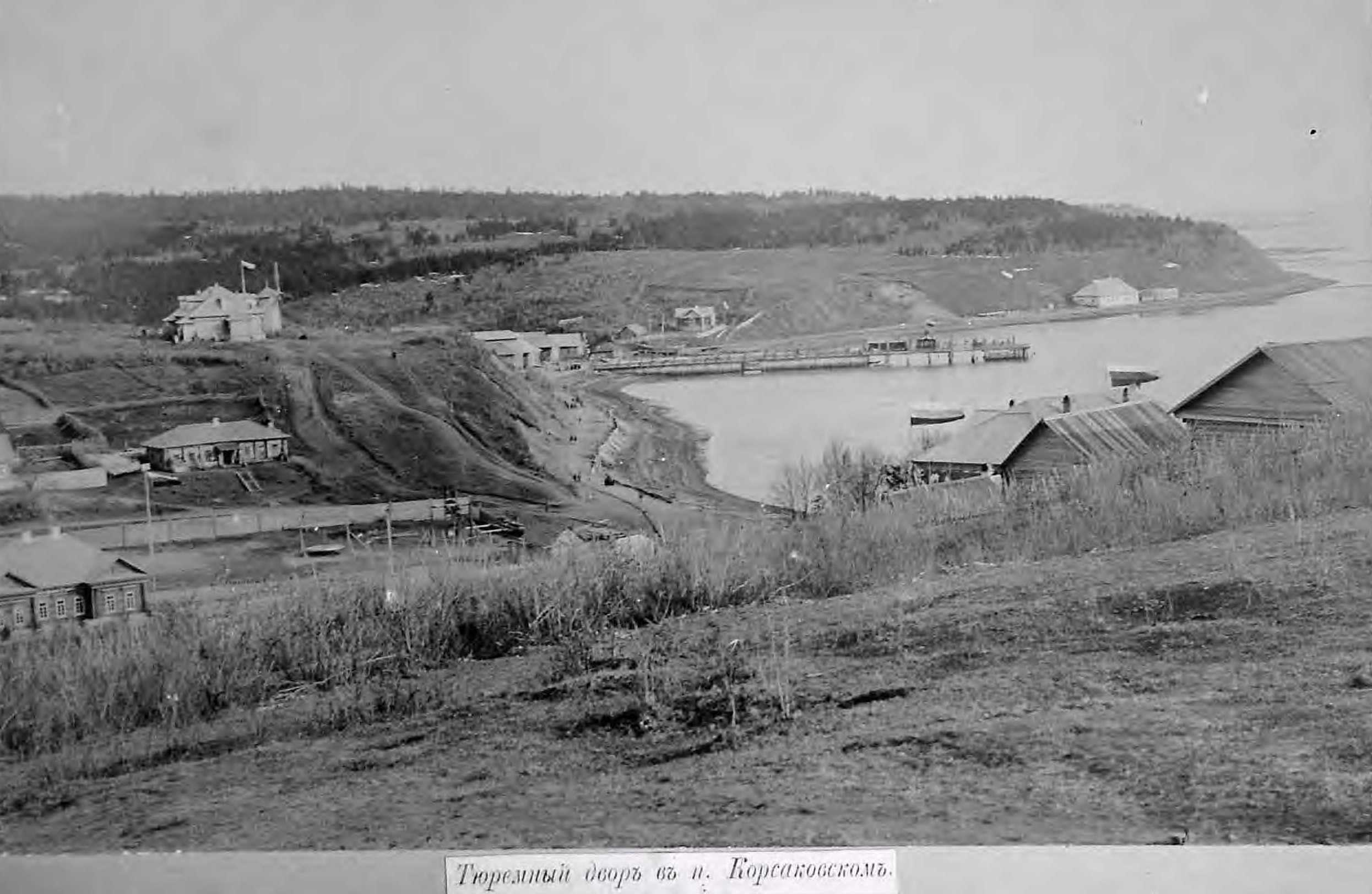 Prison yards of Korsakovsky (now Korsakov, Sakhalin region, Russia) and harbour.